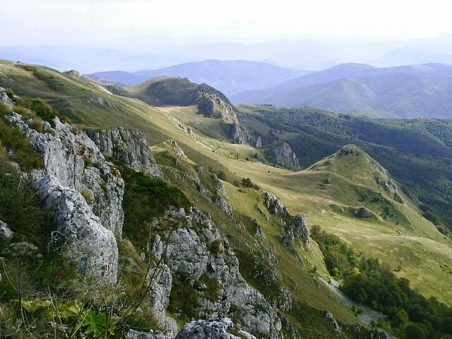 Jahorina (southern part) mountain range in Bosnia-Herzegovina